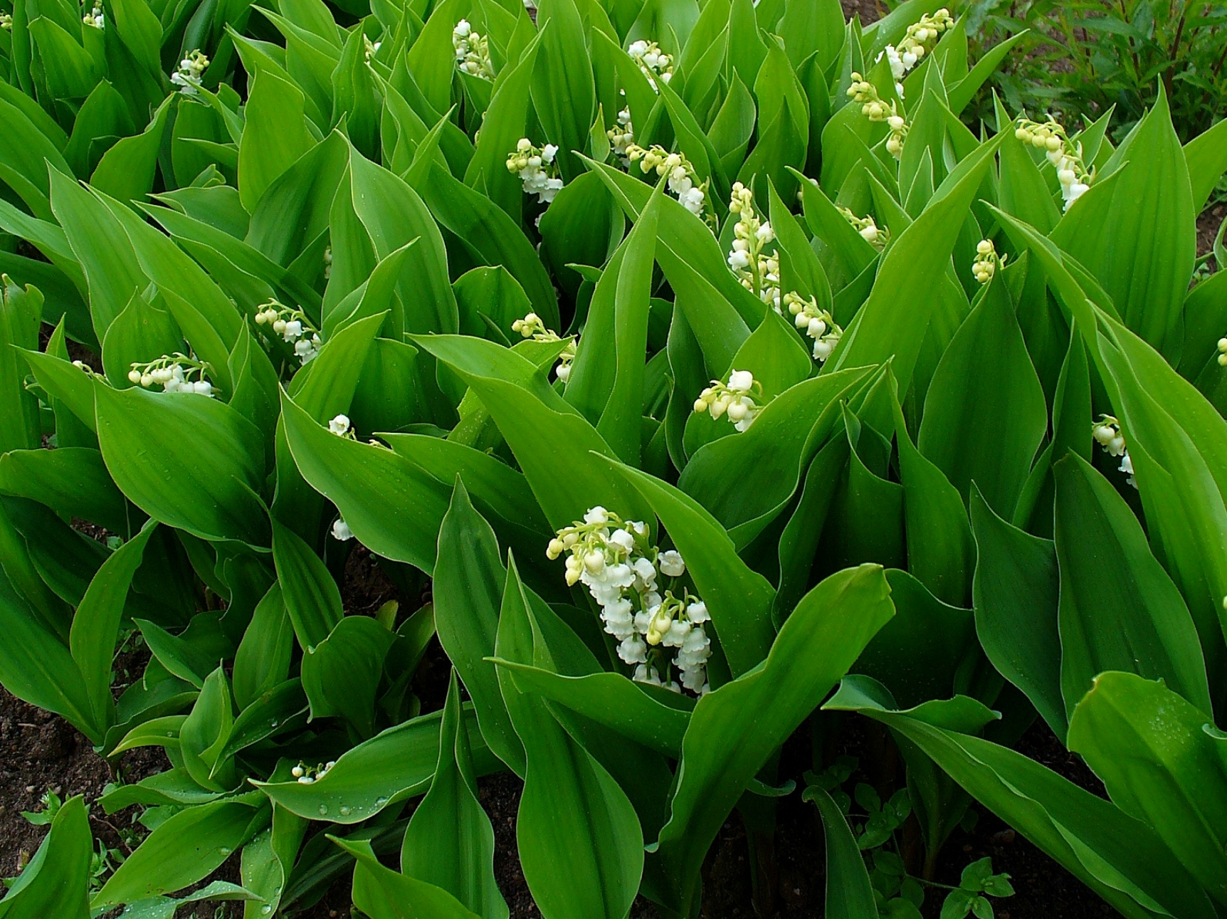 Convallaria majalis, Ruscaceae, Lily of the Valley, habitus; Karlsruhe, Germany. The fresh aerial parts of the blooming plant are used in homeopathy as remedy: Convallaria majalis (Conv.)